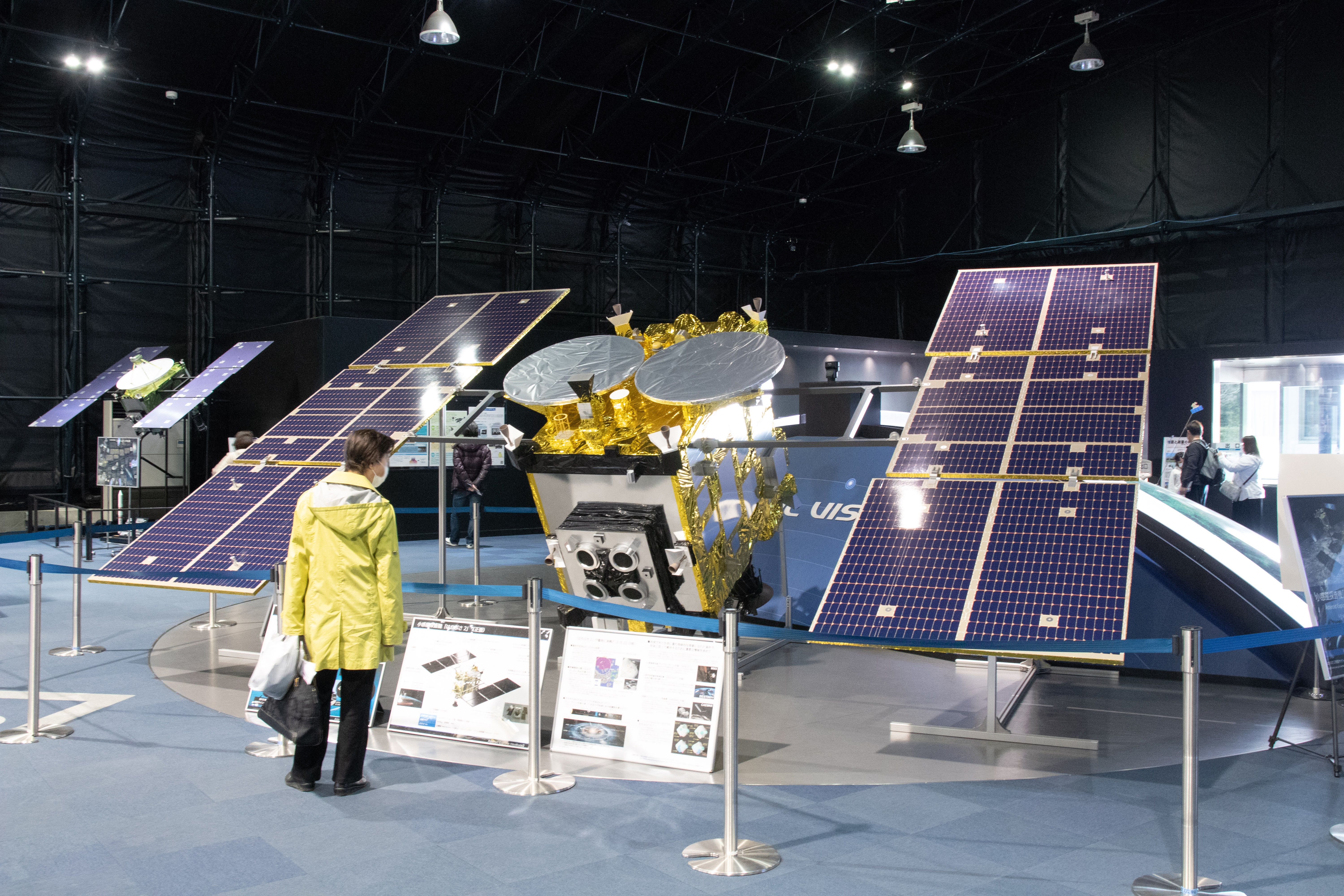 Full-scale model of Hayabusa2 at Tsukuba Space Center(JAXA), Tsukuba City, Ibaraki, Japan